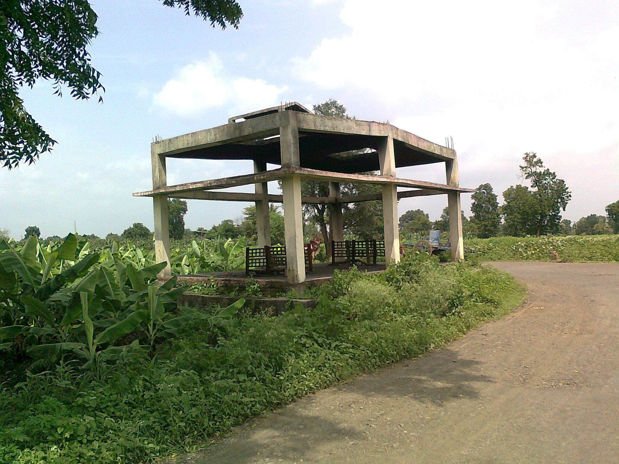 Shamshan Ghat (cremation place), Chinawal village of Maharashtra, India